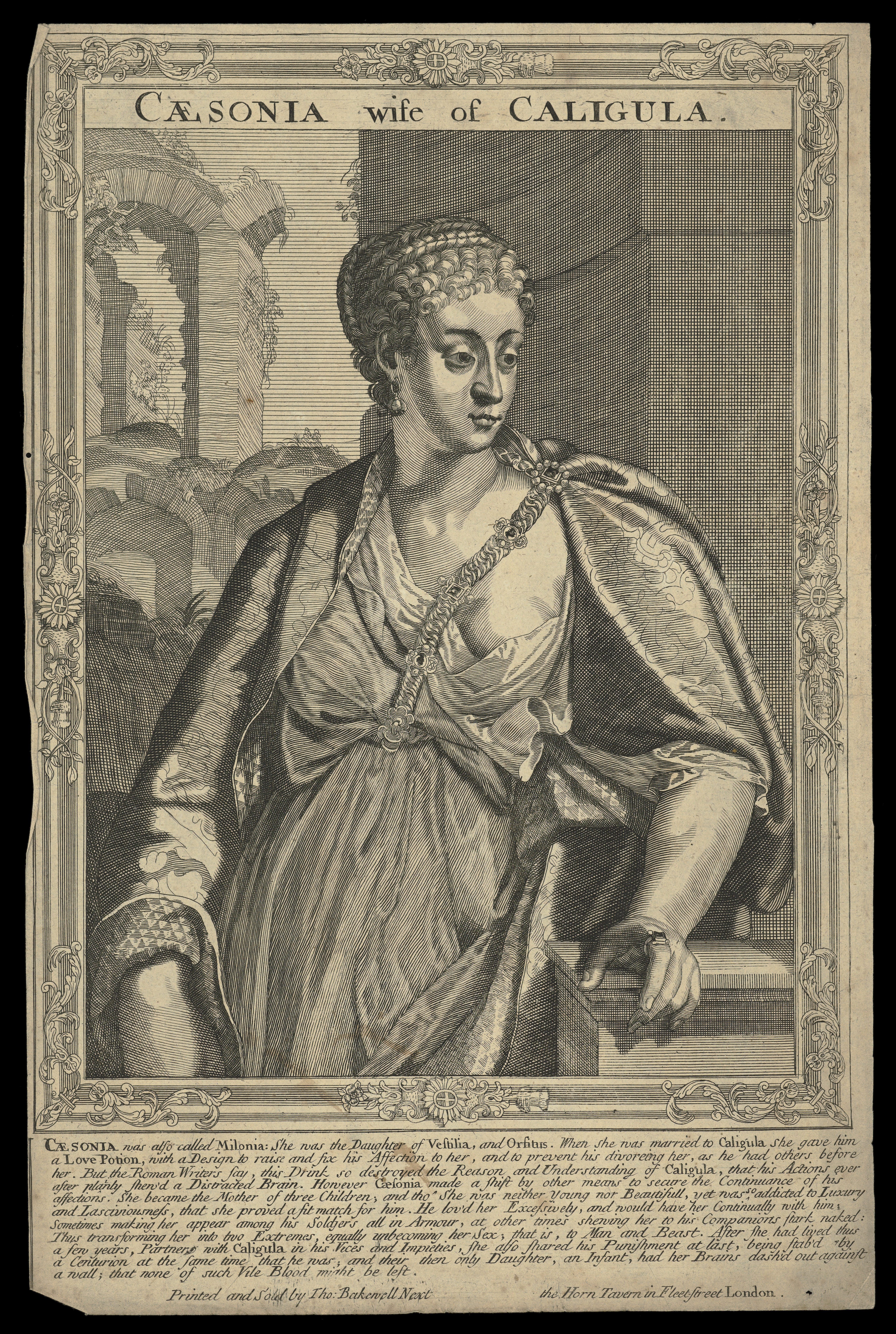 Milonia Caesonia, wife of Caligula, Emperor of Rome. Line engraving, 16--, after A. Sadeler after Titian Iconographic Collections Keywords: Ægidius Sadeler; Milonia Caesonia,; name